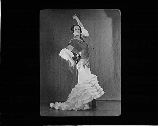 Title: La Argentina dancing Abstract/medium: Genthe, Arnold, 1869-1942. Physical description: 1 slide